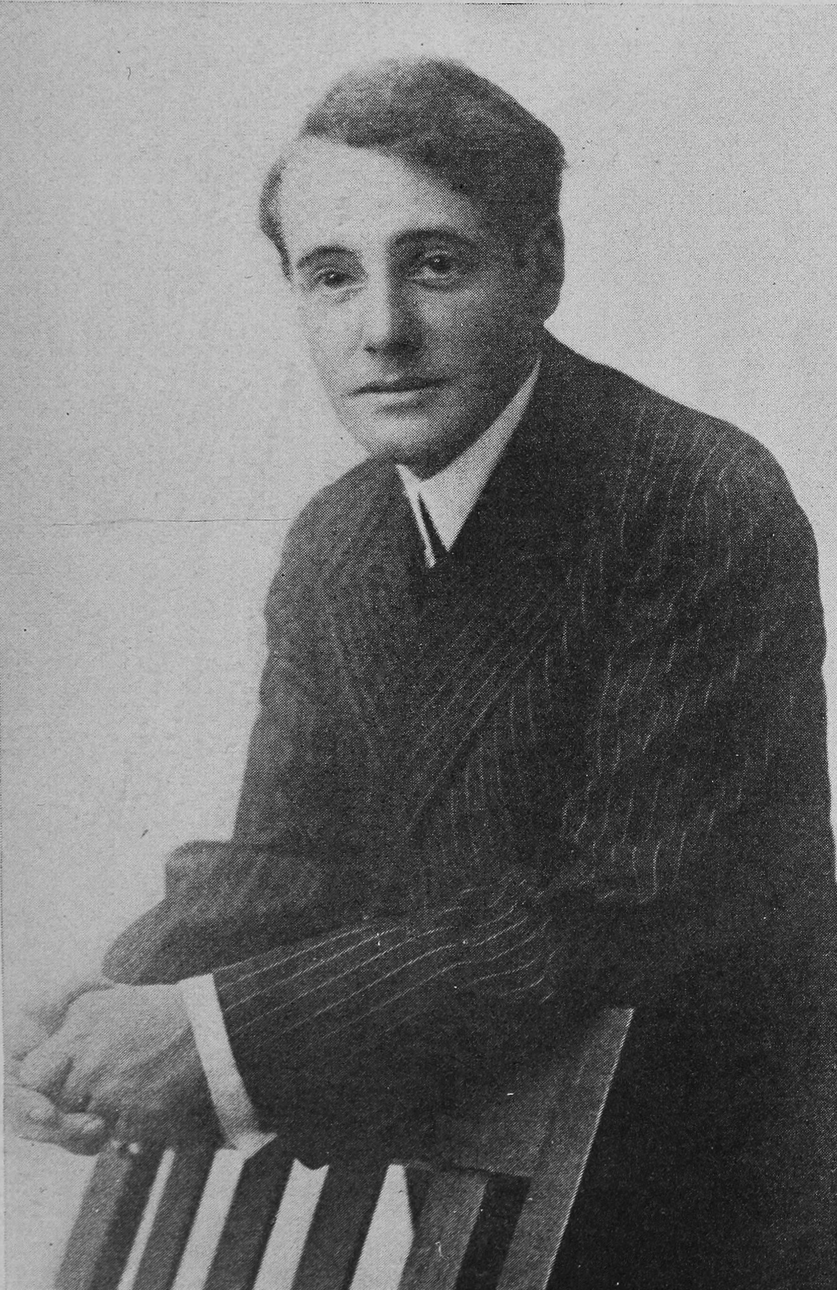 Portrait of Tom Chatterton